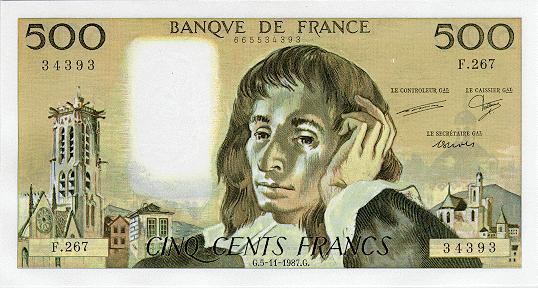 France 500 francs 1987